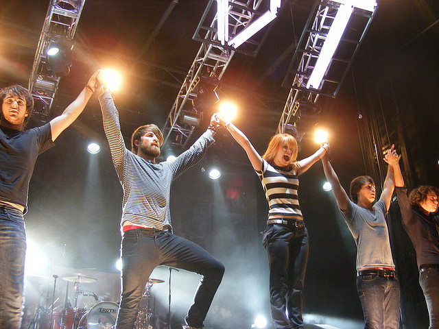 Paramore in 2008 at The Final Riot! Tour